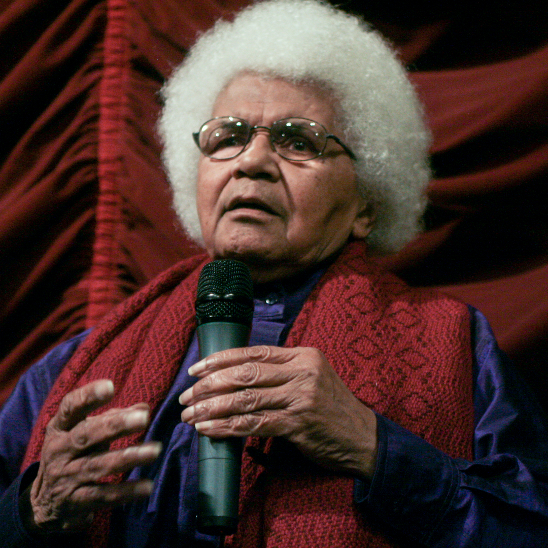 Sarah Maldoror, French filmmaker of Guadeloupean origin, director and one of the leading figures of African and Caribbean cinema.